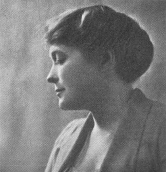 Eleanor Franklin Egan, from a 1921 publication.